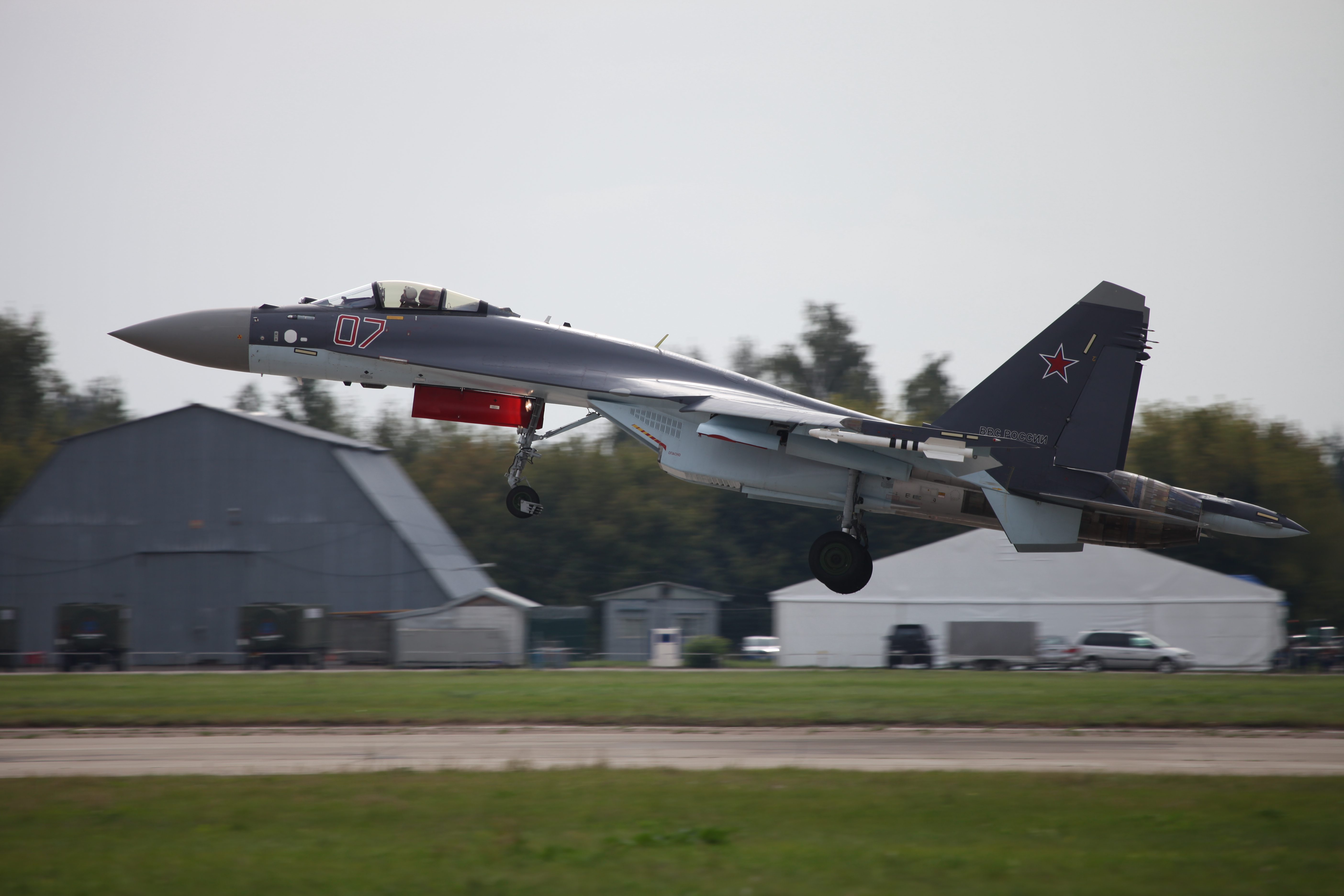 Su-35S at the MAKS-2013